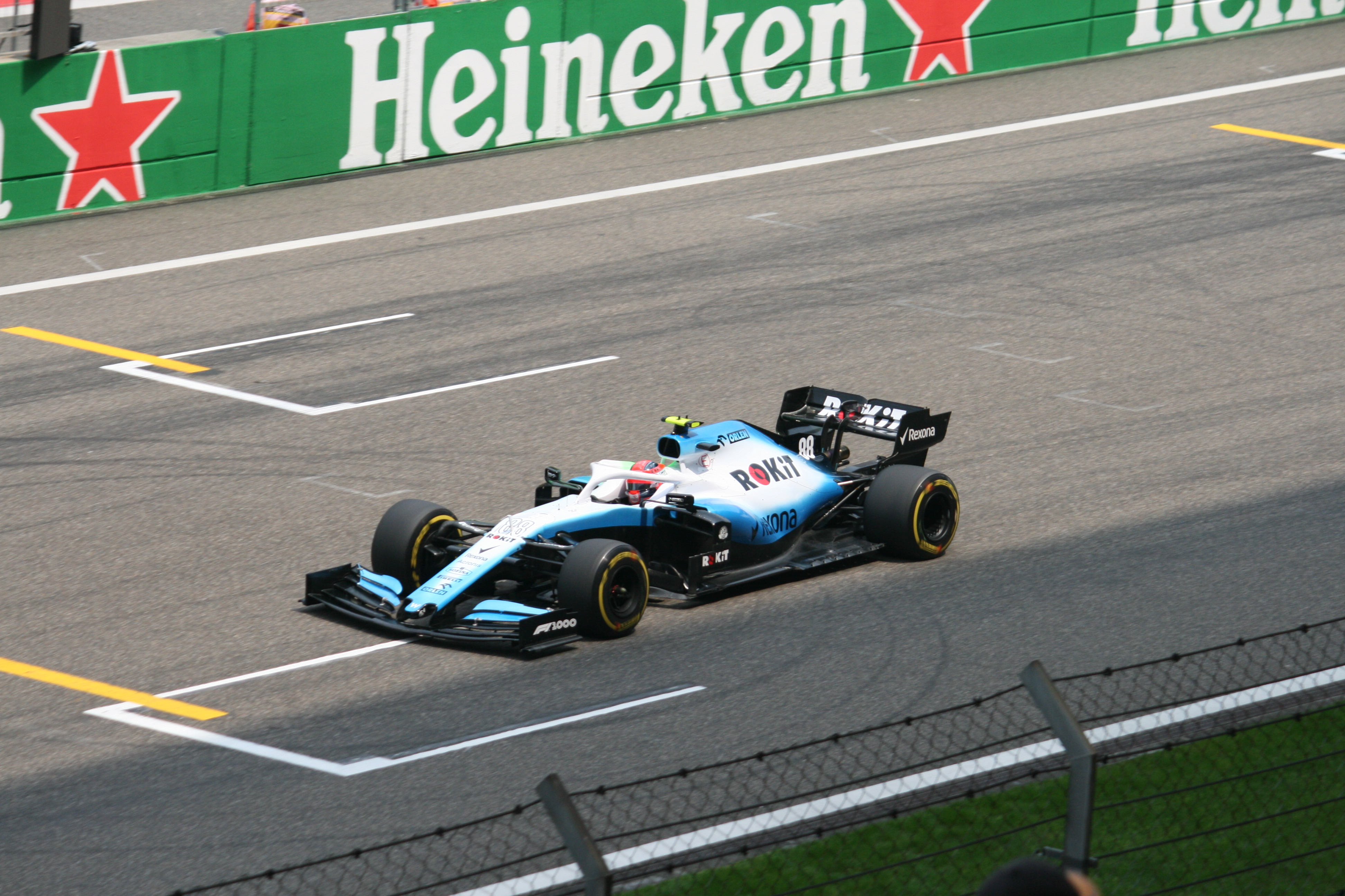 Robert Kubica, 2019 Chinese GP